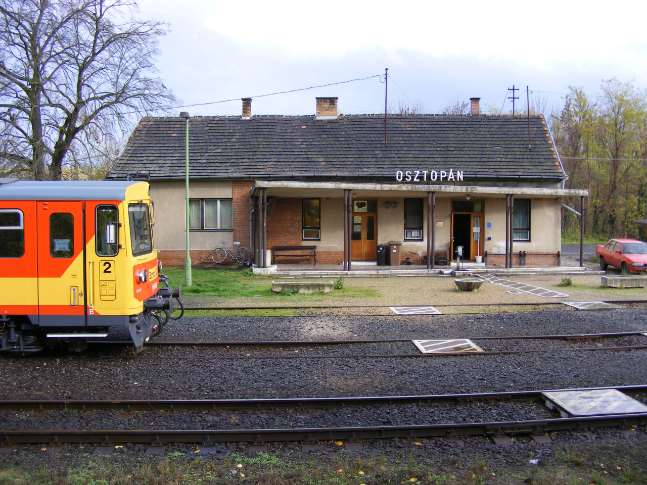 Osztopán railway station